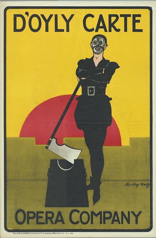 D'Oyly Carte Opera Company poster designed by Dudley Hardy for the first revival of The Yeomen of the Guard at the Savoy Theatre, 1897.